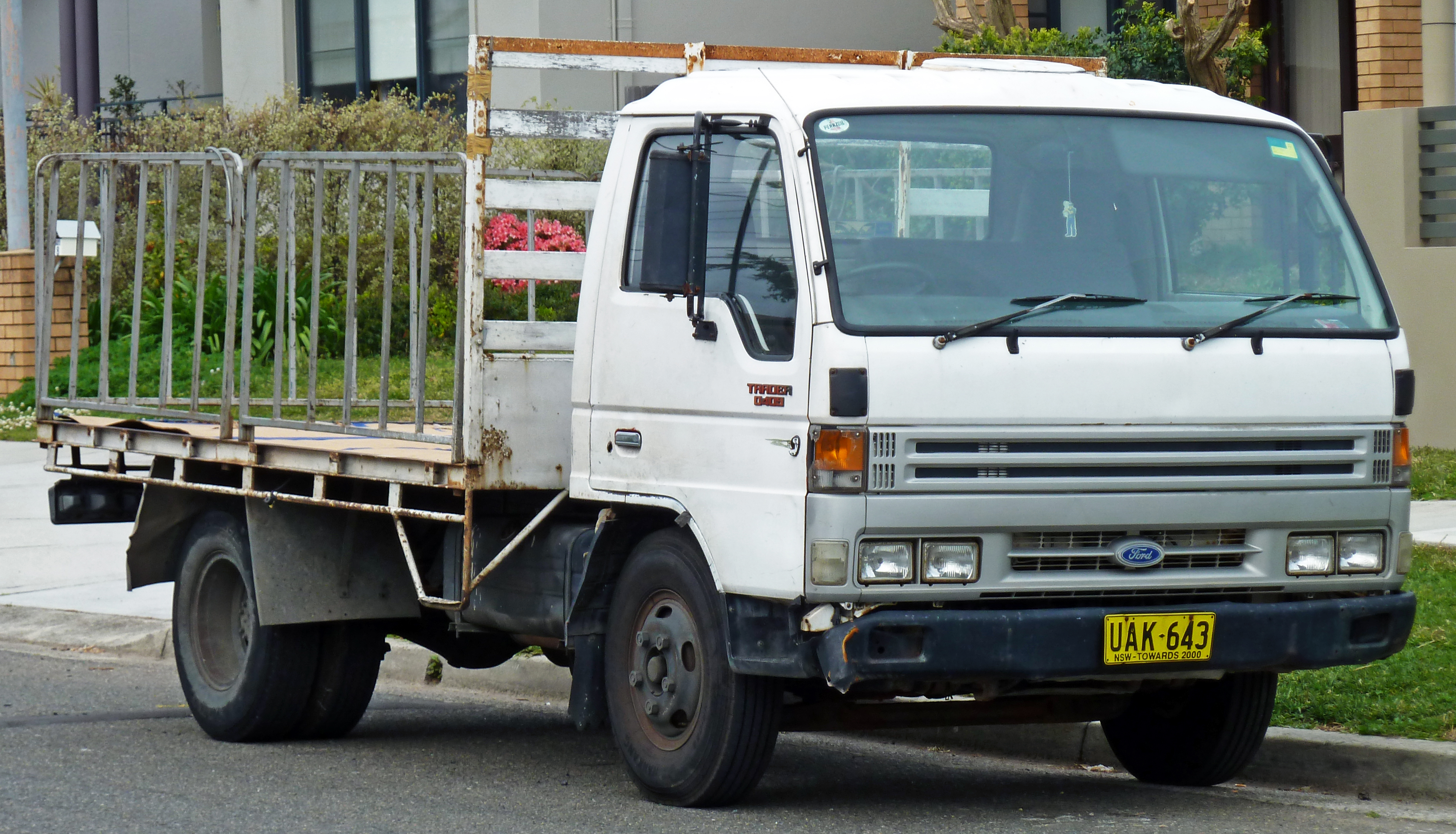 1996 Ford Trader 0409 2-door truck. Photographed in Taren Point, New South Wales, Australia.